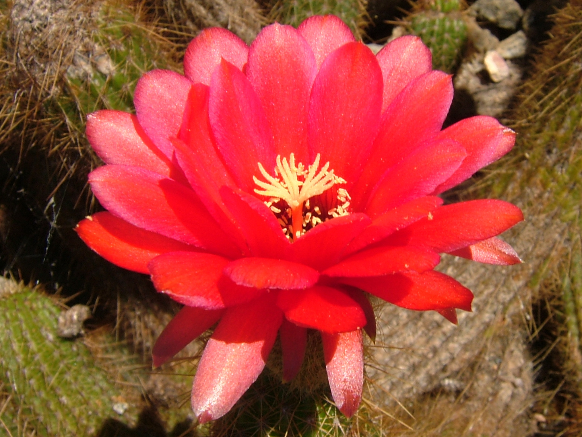 Echinopsis huaschaBotanical Garden MeranWater- and Terraces Gardens